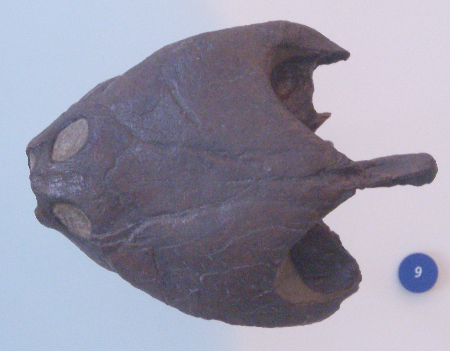 Cast of the skull of Podocnemis bassleri (specimen AMNH 1662) in the American Museum of Natural History.